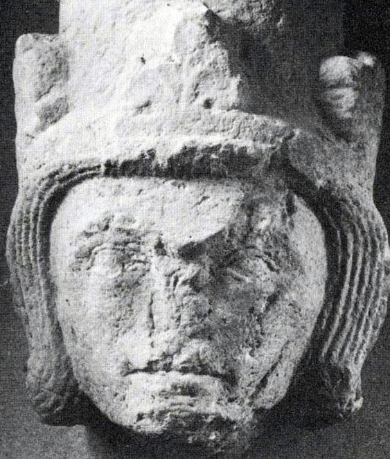 Head from Gudhem Cloister, according to Prof. Jan Svanberg probably a representation of King Eric the Lisper and Halter of Sweden